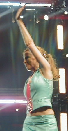 Kylie Minogue live in Cologne